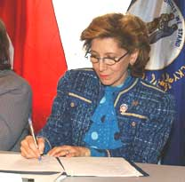 A picture of Bernadette Castro on the Advisory Council on Historic Preservation website.